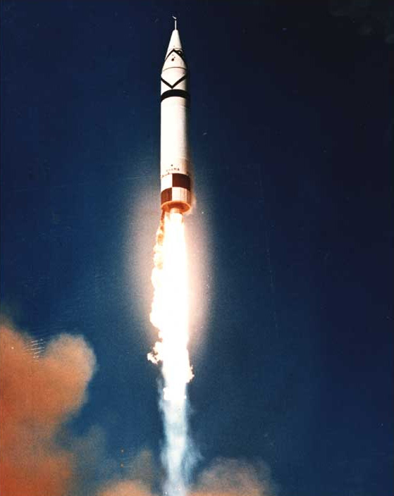 Jupiter IRBM launch. Picture from U.S. Army - Redstone Arsenal - Jupiter Missile History Website